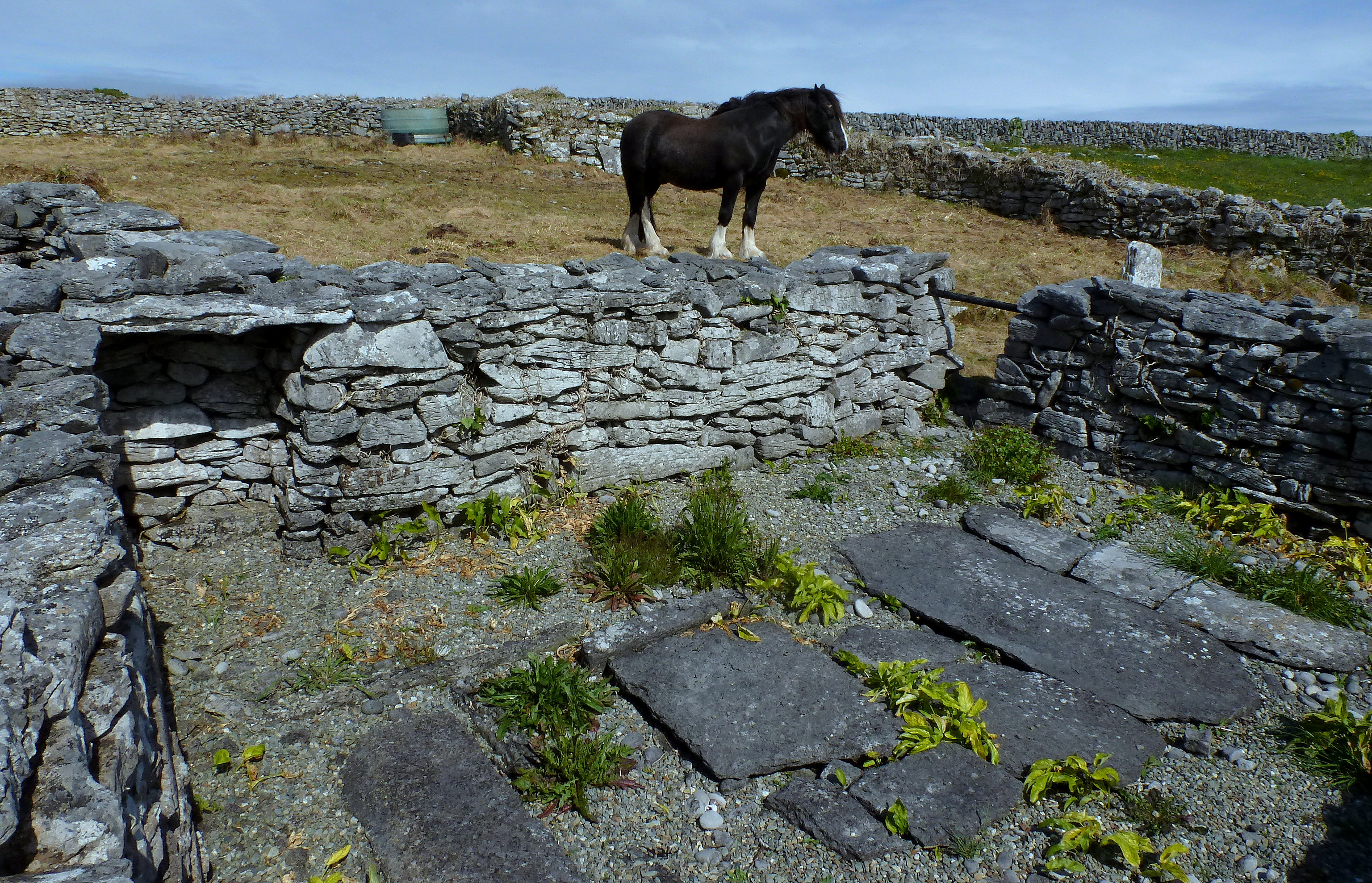 Cill na Seacht nInión - Inis Oírr